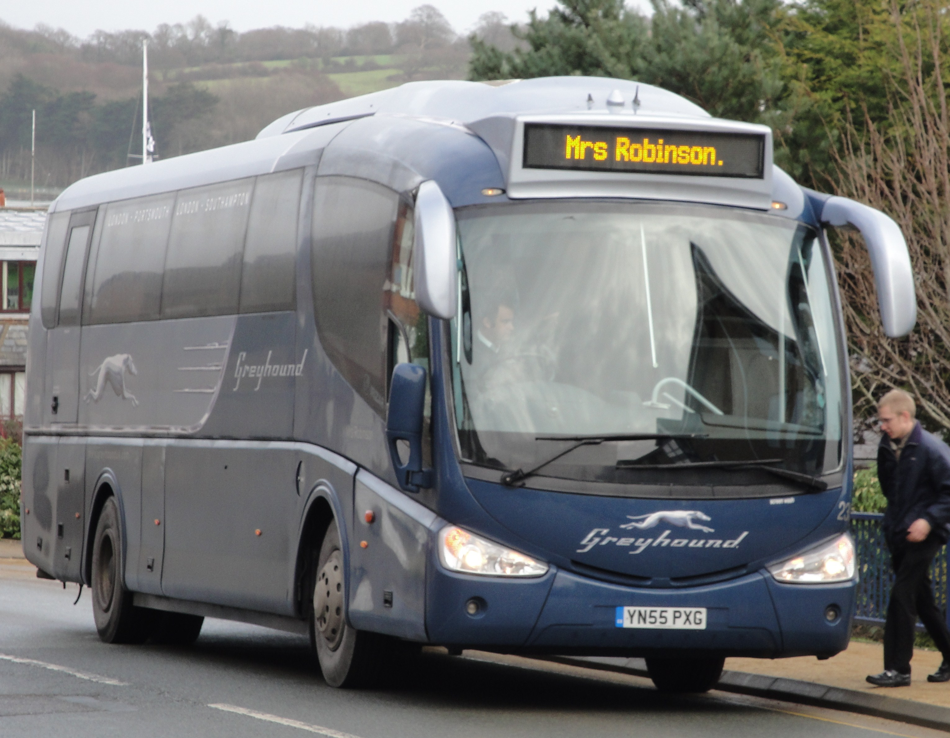 Greyhound UK 23316 Mrs Robinson (YN55 PXG), a Scania K114EB/Irizar on Terminus Road, Cowes, Isle of Wight after a a stop at the Co-op on a promotional visit to the island.